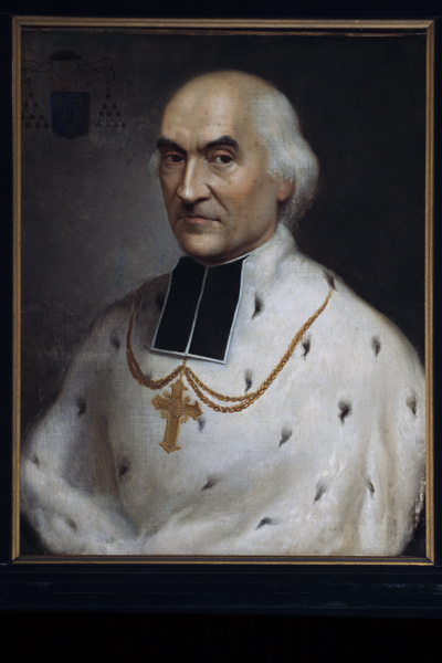 Sint-Baafskathedraal, Gent, Oost-Vlaanderen, Belgium. Cathedral collections. Portrait of bishop Henricus Franciscus Bracq. Painting. Oil on canvas. 19th century. Inv 499/22. . photo: Paul M.R. Maeyaert. . © Paul M.R. Maeyaert; . Original colour transparency 6x7cm. . Cultural heritage; Cultural heritage|Monuments|Cathedral; Cultural heritage|Techniques|Painting; Europe|Belgium; Europe|Belgium|Oost-Vlaanderen; Europe|Belgium|Oost-Vlaanderen|Gent; Europe|Belgium|Oost-Vlaanderen|Gent|Sint-Baafskathedraal. . Inv 499 PORTRETTEN VAN DE BISSCHOPPEN VAN GENT, XVIde tot XXste eeuw; nrs. 1 tot 5 op paneel, de andere op doek, 70 cm x 53 cm. 499/22. Wapenschild zonder spreuk van Henricus Franciscus BRACQ Gemerkt : A. V. D. EIJCKEN. Inventaris van het Kunstpatrimonium van Oost-Vlaanderen, V: Sint-Baafskathedraal, Gent; door Dr Elisabeth Dhaenens, 1965. . . Ref: PMa_001033_B_Gent_StB.jpg.